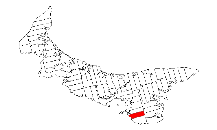 Public domain map of Prince Edward Island created by User:Plasma east with data courtesy of Geogratis, modified to show townships. Released under GFDL (self).